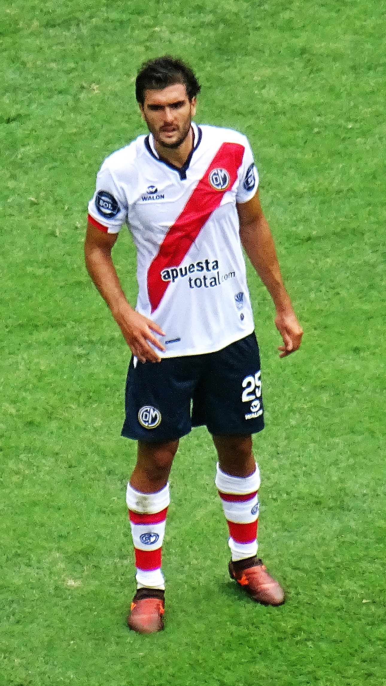 Alvaro Ampuero (Lima, 1992) Peruvian footballer. National Stadium, Peru 2018